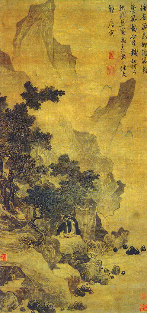 Watching the Spring and Listening to the Wind, Tang Yin, Ming Dynasty, China, Nanjing Museum.